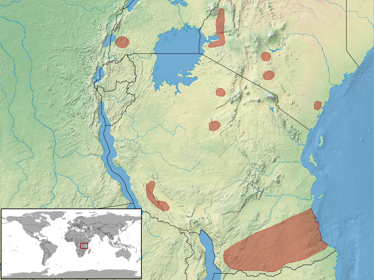 geographic distribution of Acanthocercus cyanogaster